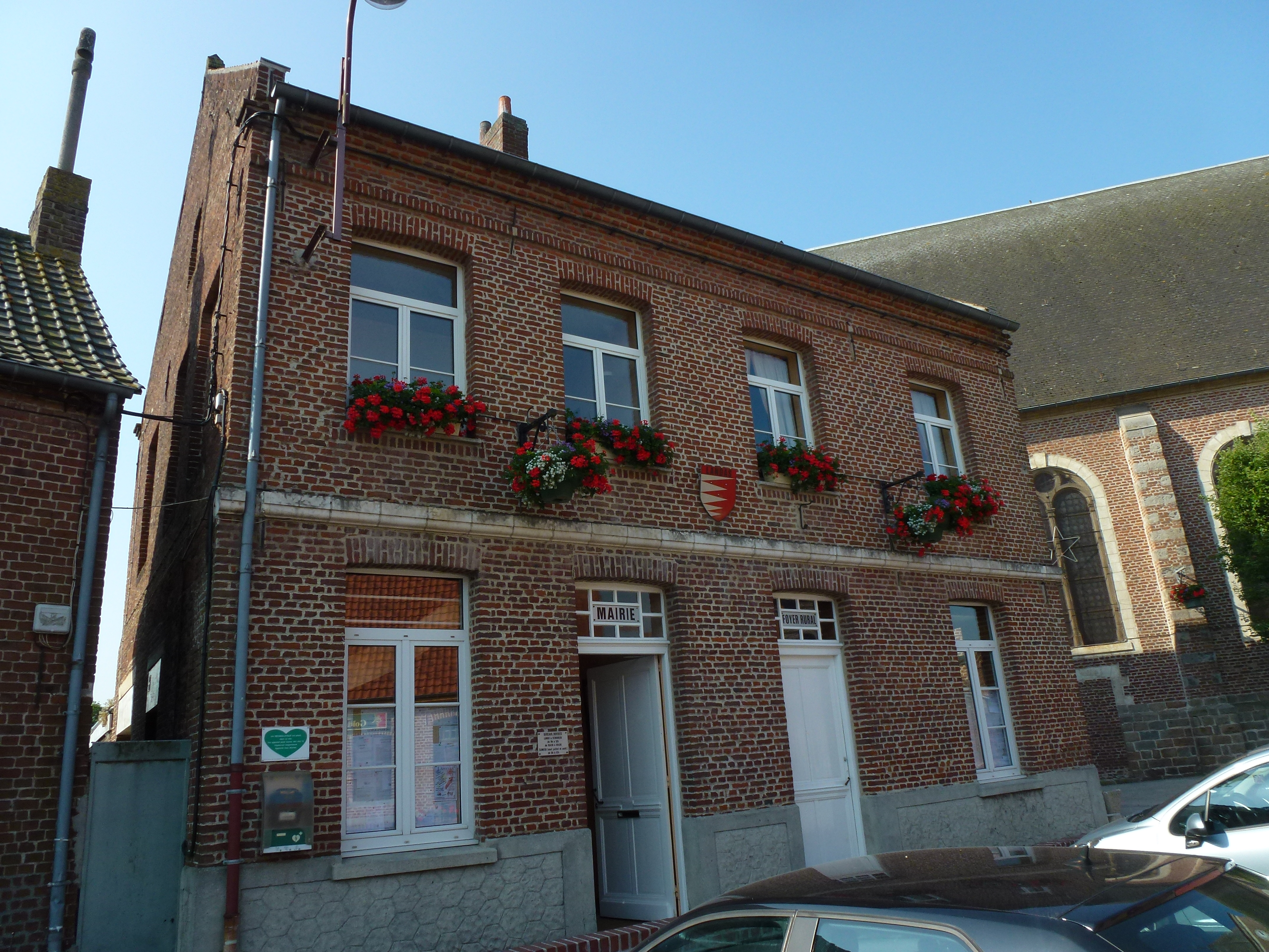 Landas (Nord, Fr) mairie